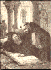 Frate Masseo